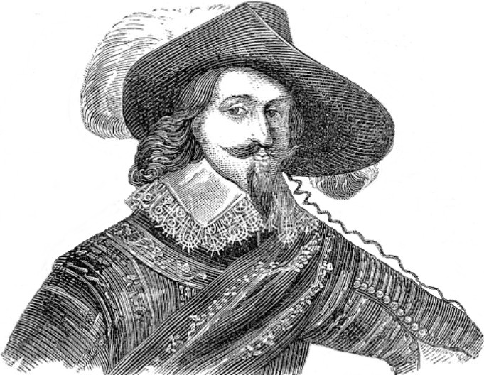 Sir Thomas Meautyswas was private secretary to Francis Bacon. He was also an English civil servant and politician who sat in the House of Commons between 1621 and 1640. In this picture his long lovelock is clearly visible next to his left arm